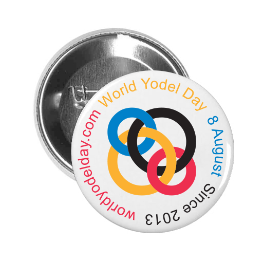 World Yodel Day Pin Button 2018 Edition designed by Minsung Park, a Korean Yodeler